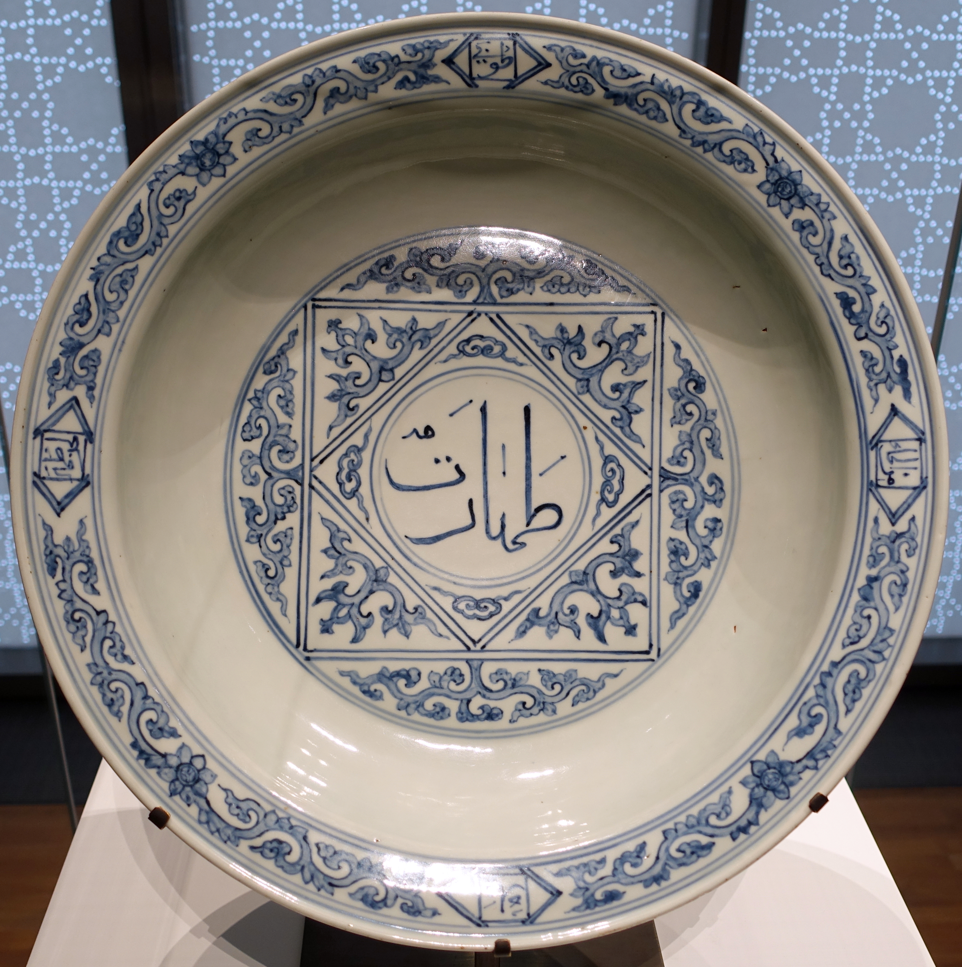 Exhibit in the Aga Khan Museum - Toronto, Canada. This work is old enough so that it is in the public domain.